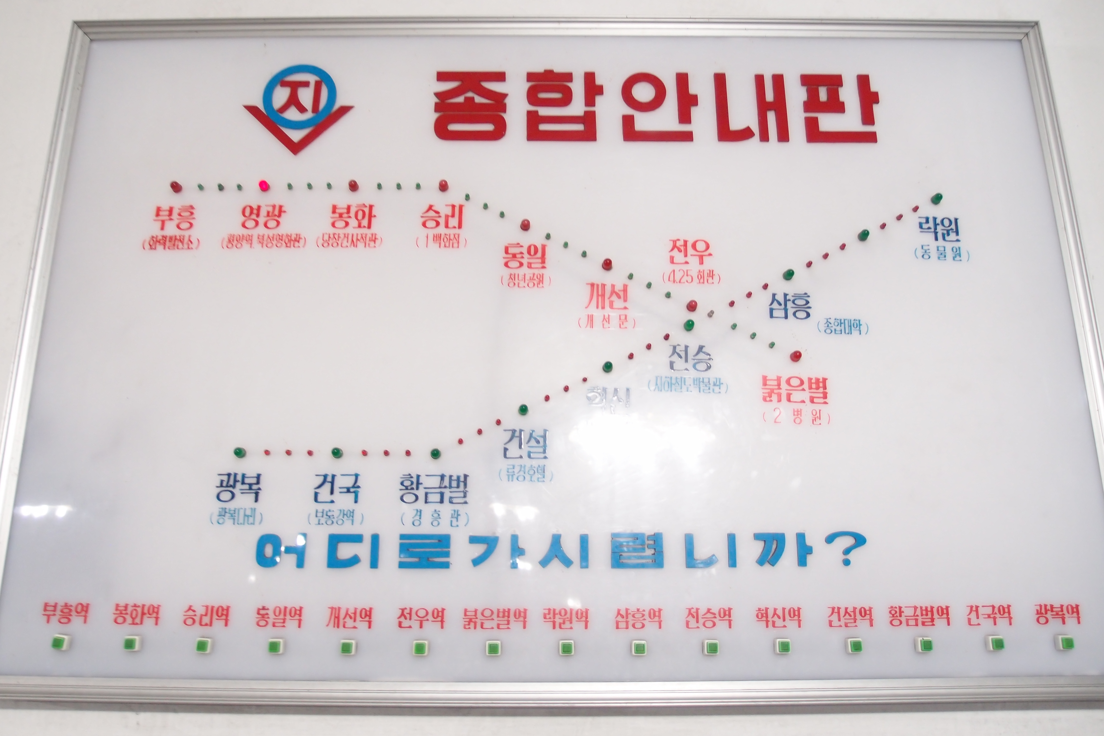 Pyongyang metro lines map with LEDs at a metro station in Pyongyang, North Korea